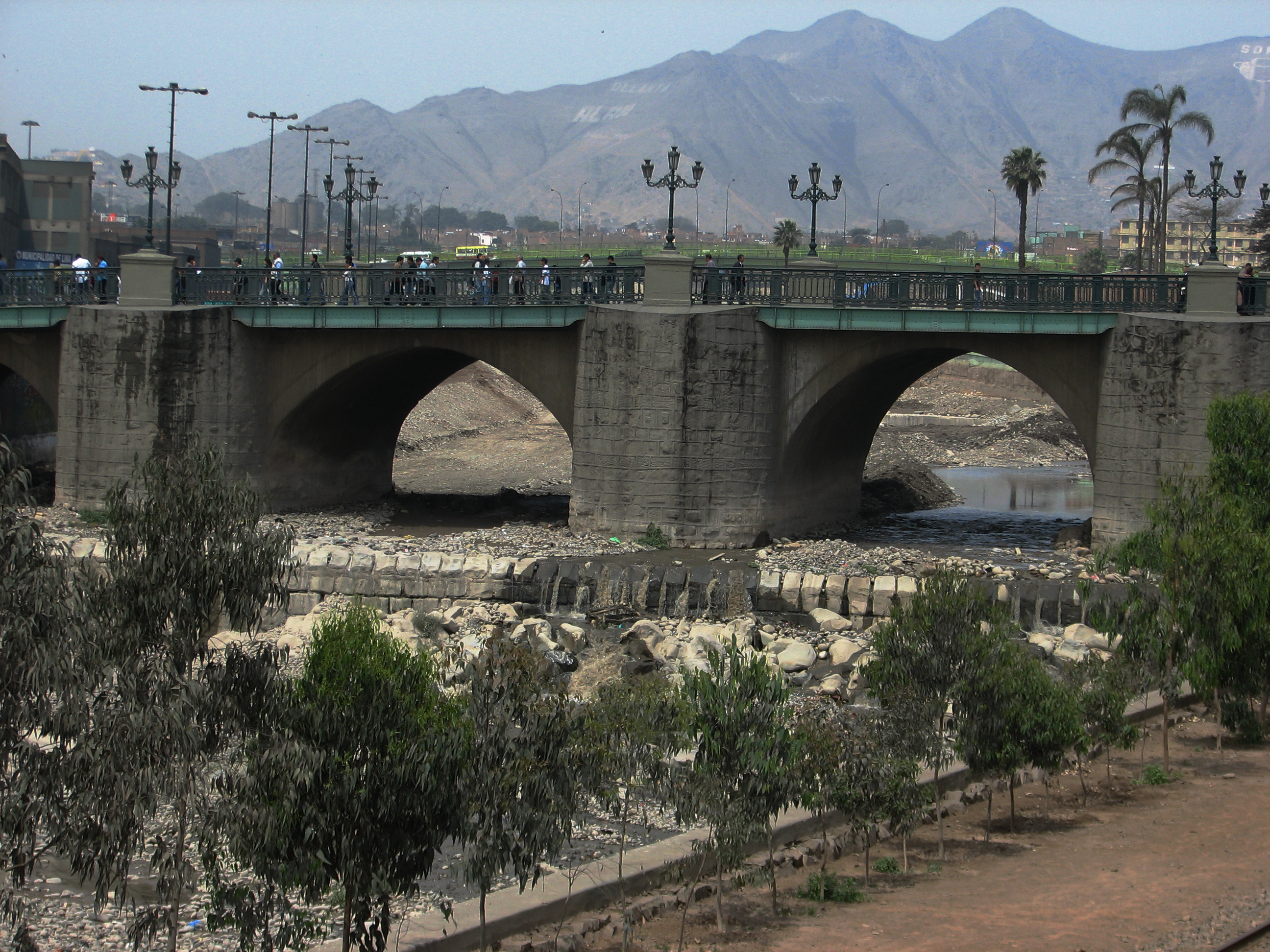 Bridge across the Rímac River, Lima, Peru